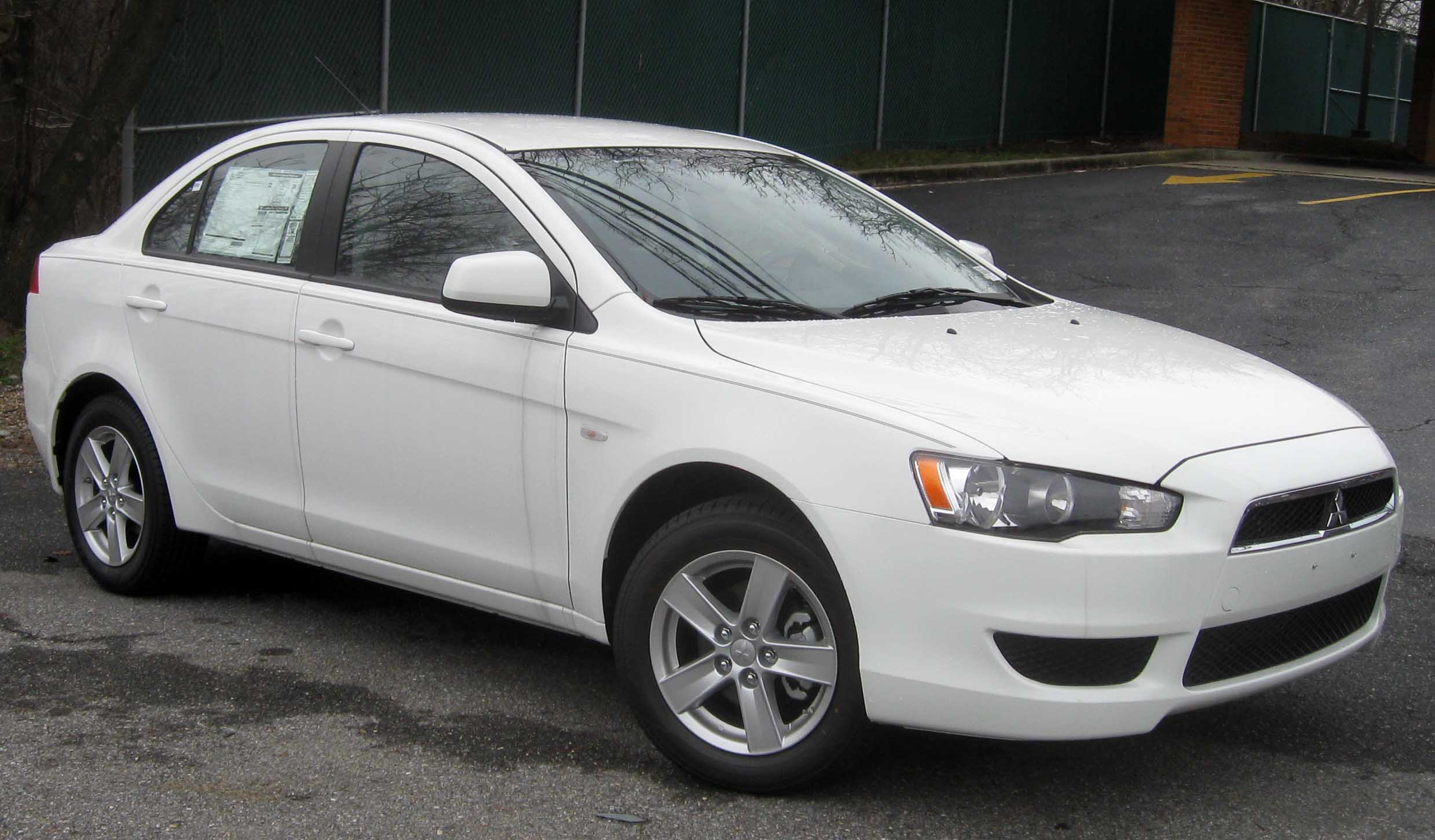 2009 Mitsubishi Lancer photographed in Marlow Heights, Maryland, USA.